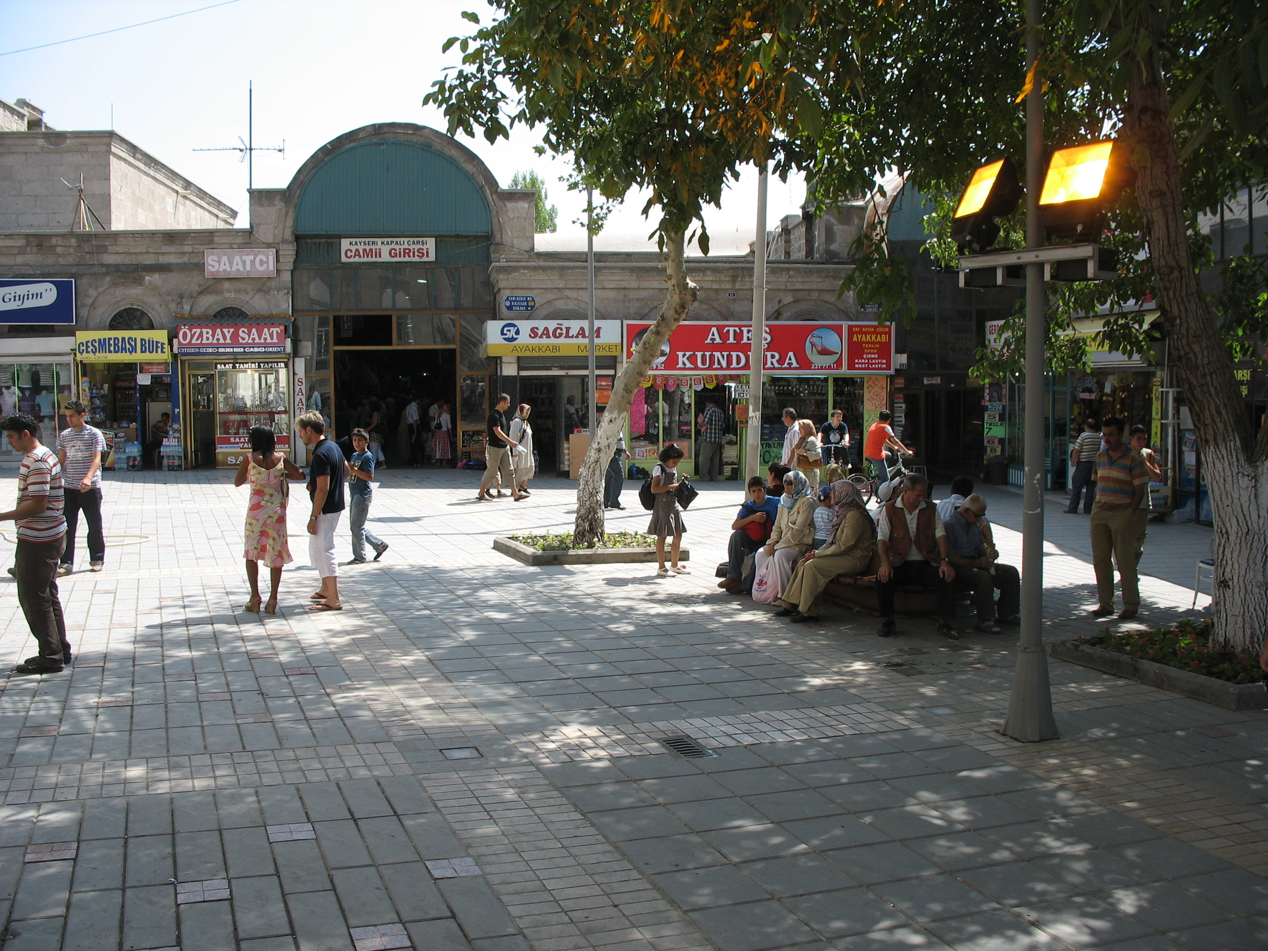 a square in Kayseri